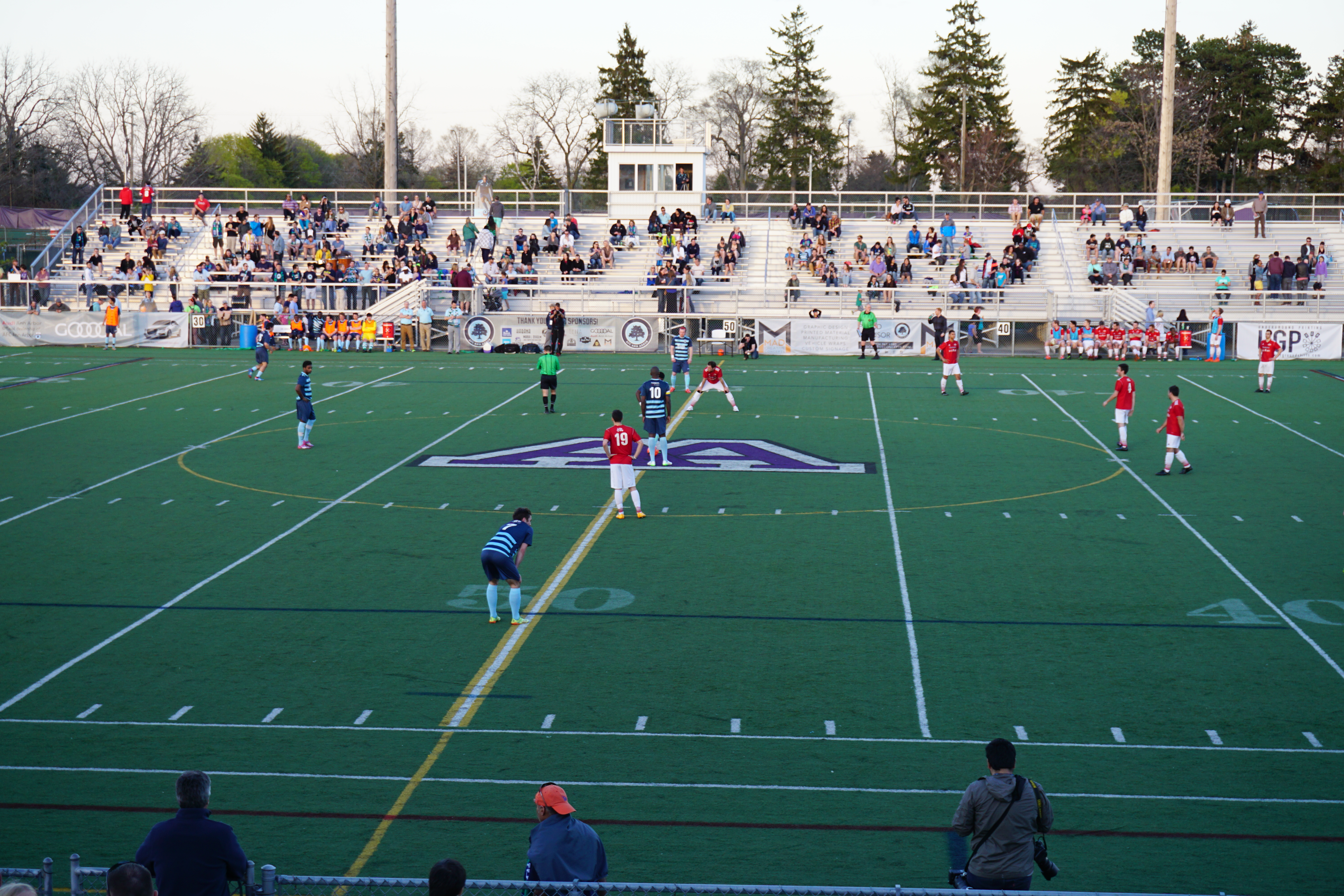 Second-half action during the friendly match between AFC Ann Arbor and San Marino Soccer (Michigan) at Hollway Field in Ann Arbor, Michigan (United States). Final score: Ann Arbor 1 – 2 San Marino.